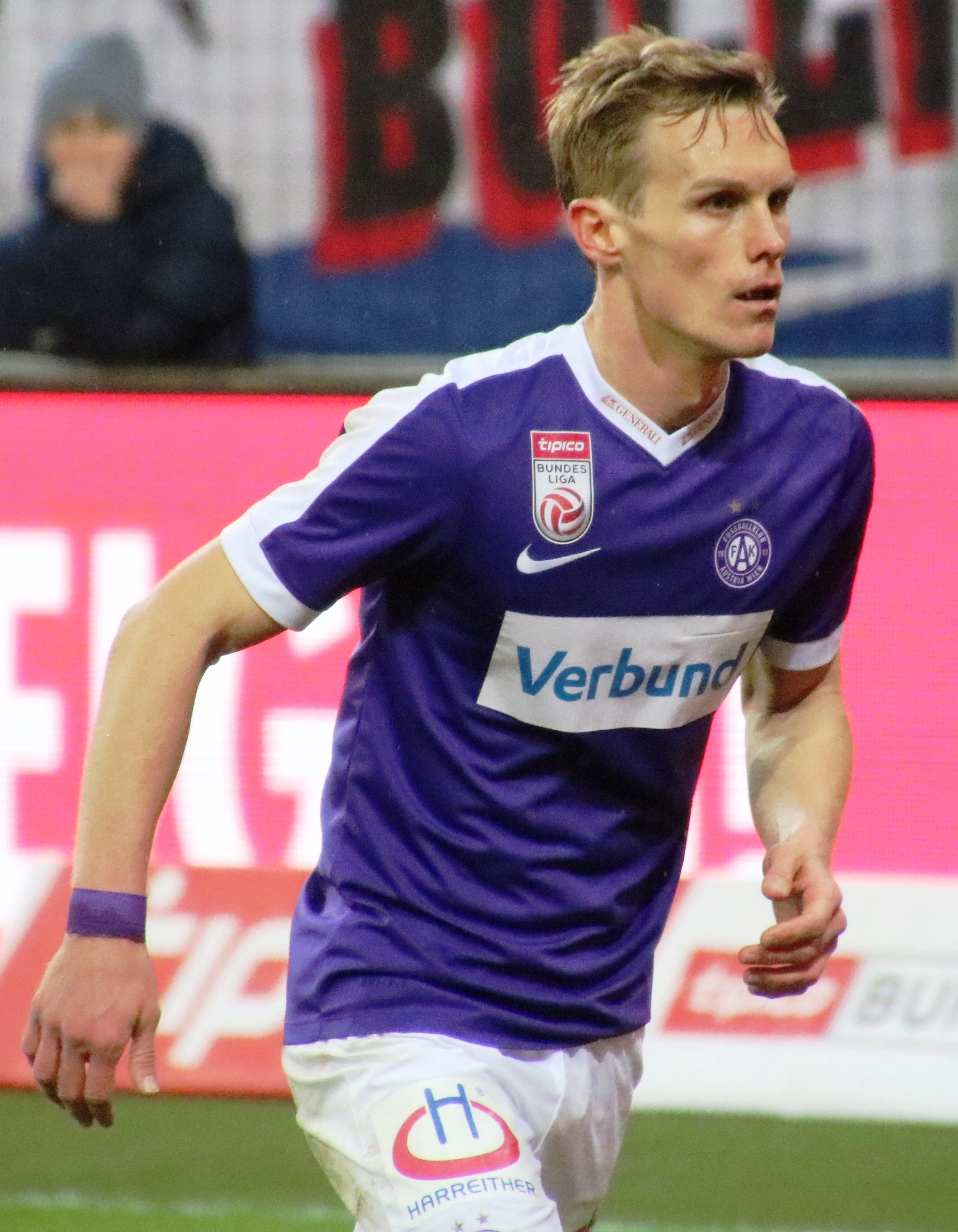 league match Austrian Bundesliga